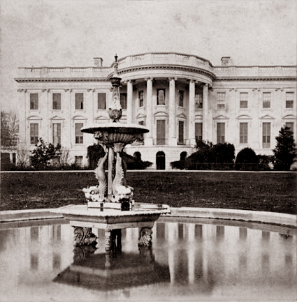 Stereograph view of the White House, c. 1868 showing the first pool and fountain.